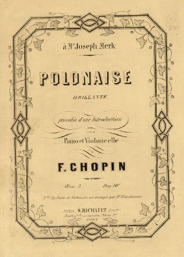 Frederic Chopin's Introduction and Polonaise brillante in C major, Op. 3 (1860)